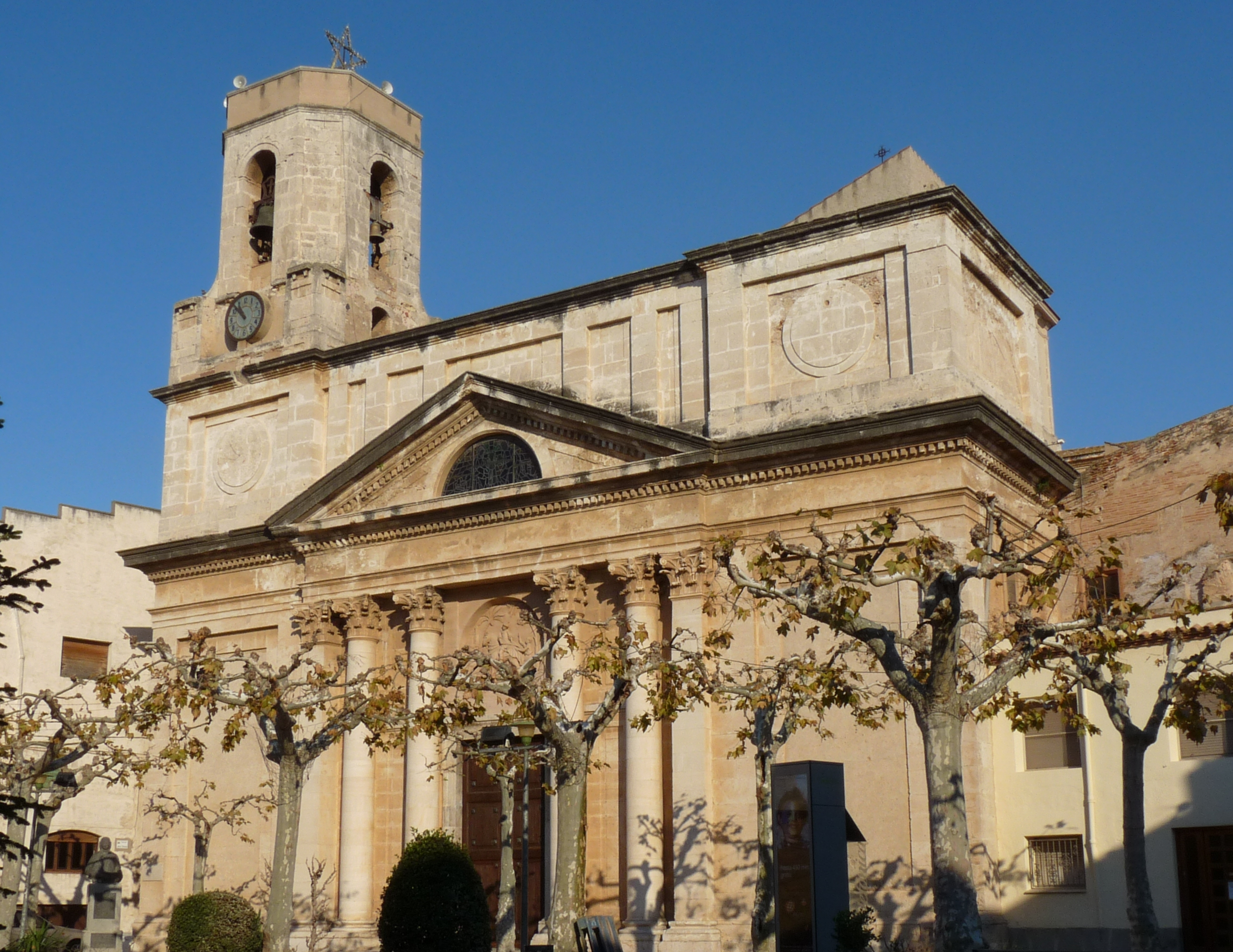 Church of Sant Martí, 18th Century. Vilallonga del Camp.